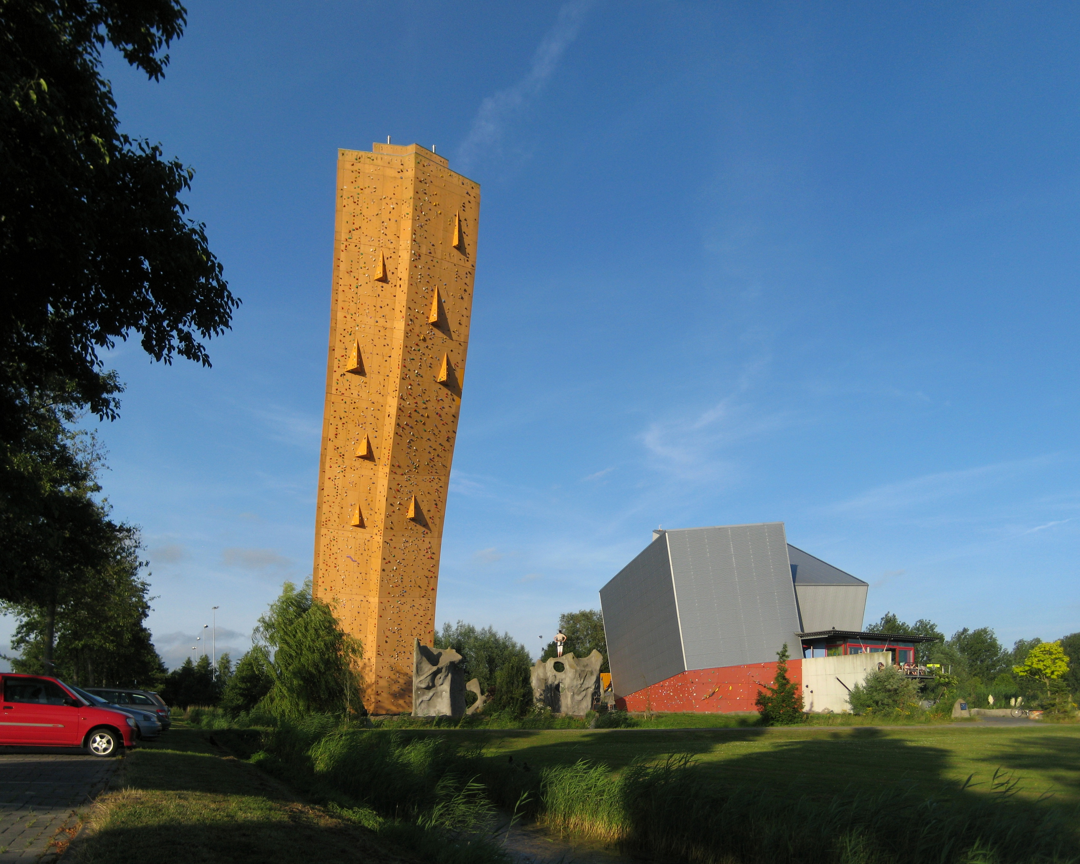 The climbing tower and climbing hall of Klimcentrum Bjoeks in the Dutch city of Groningen.